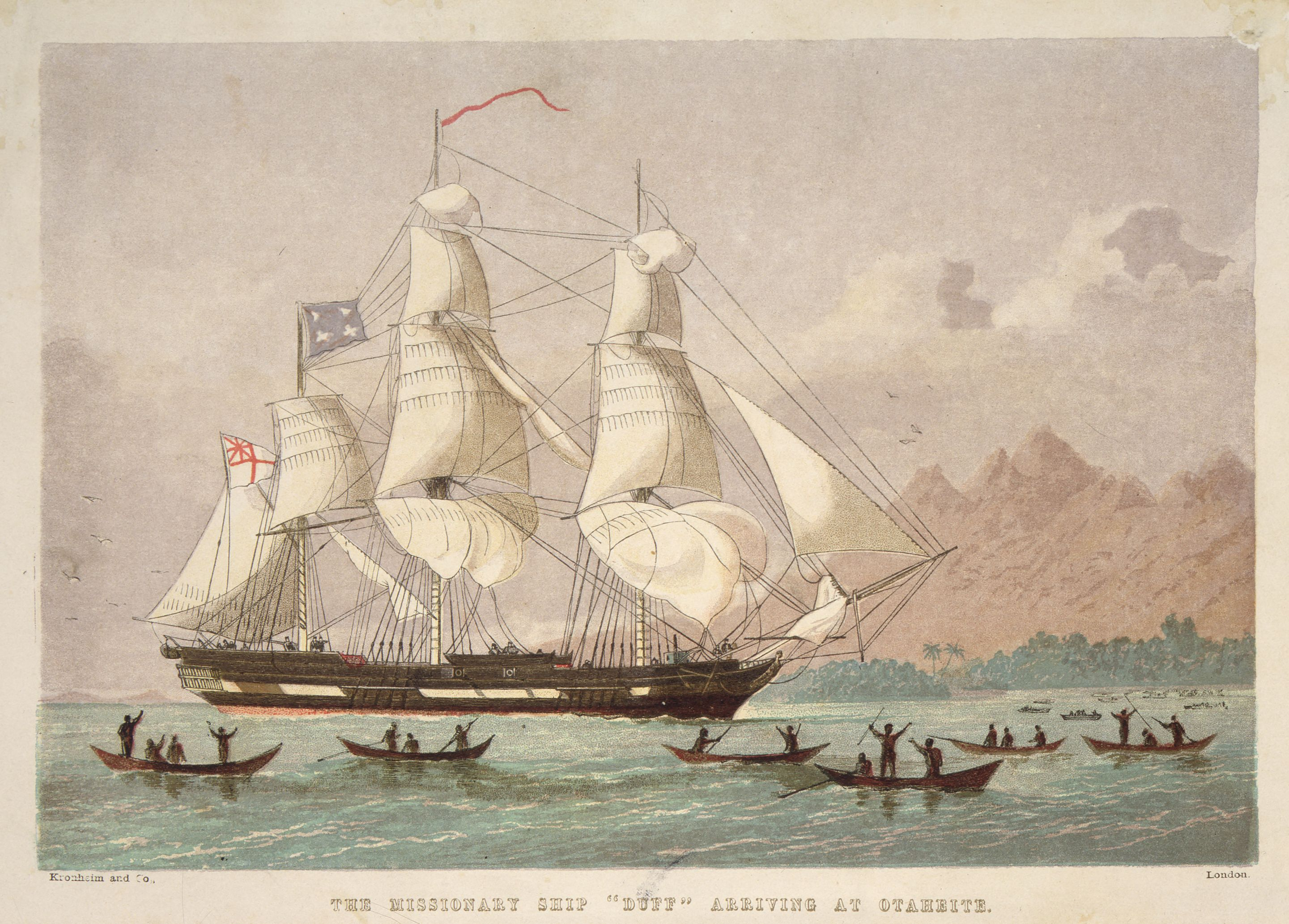 J. M. Kronheim and Company :The missionary ship "Duff" arriving [ca 1797] at Otaheite. [Printed by] Kronheim and Co. London [1820s?]. Reference Number: A-118-003. Shows Tahitians waving in their canoes in the foreground with the mission ship in full sail, and tall hills and coconut palms in the background.